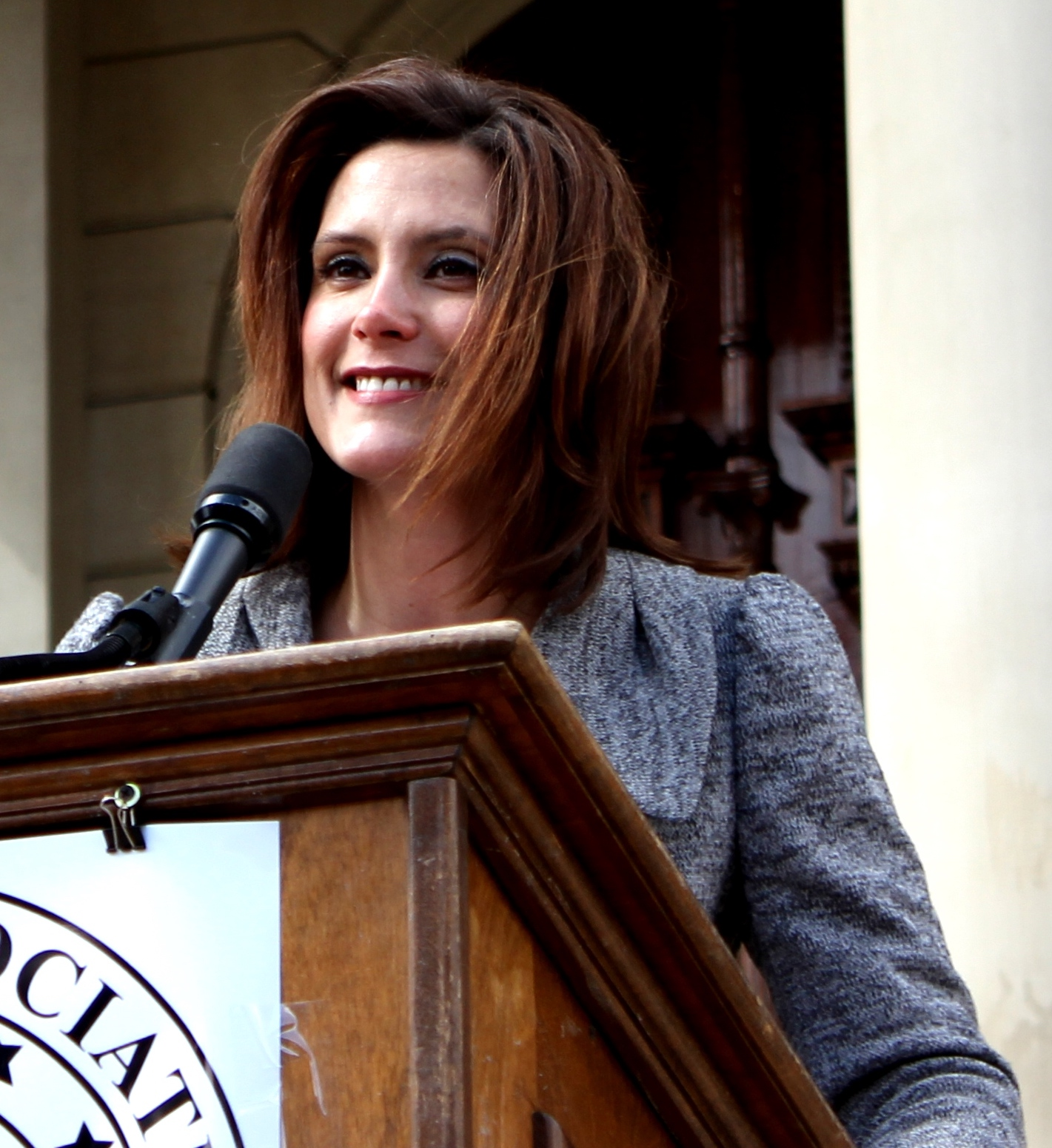 Michigan State Senator Gretchen Whitmer speaks in 2011.